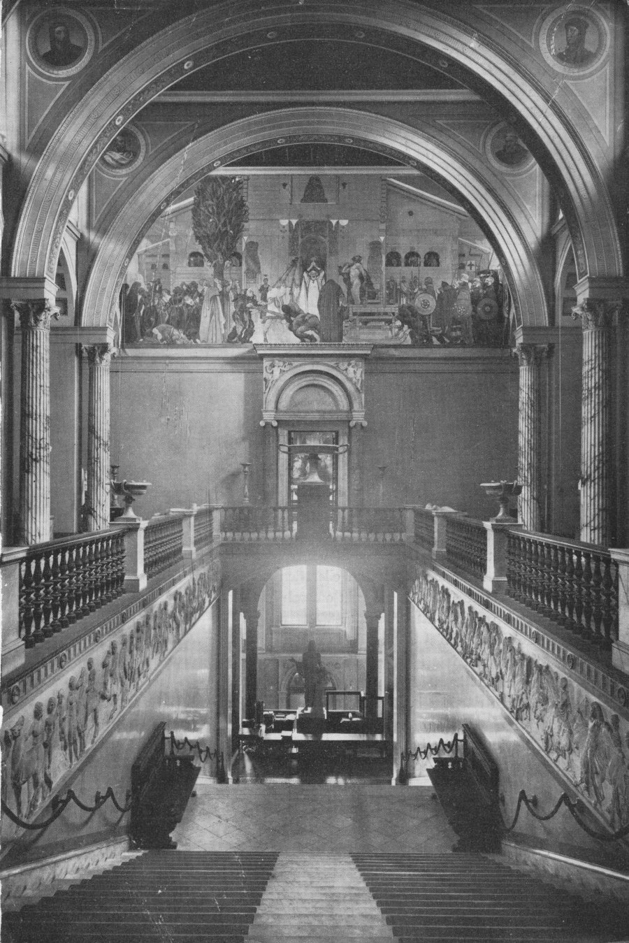 The stairs at the National Museum in Stockholm in 1915 where Carl Larsson's Midwinter Sacrifice is hanging temporarily